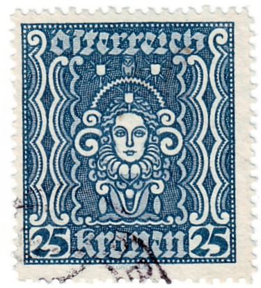 Stamp of Austria, Mi Nr. 399, 25 kronen issued in 1922.